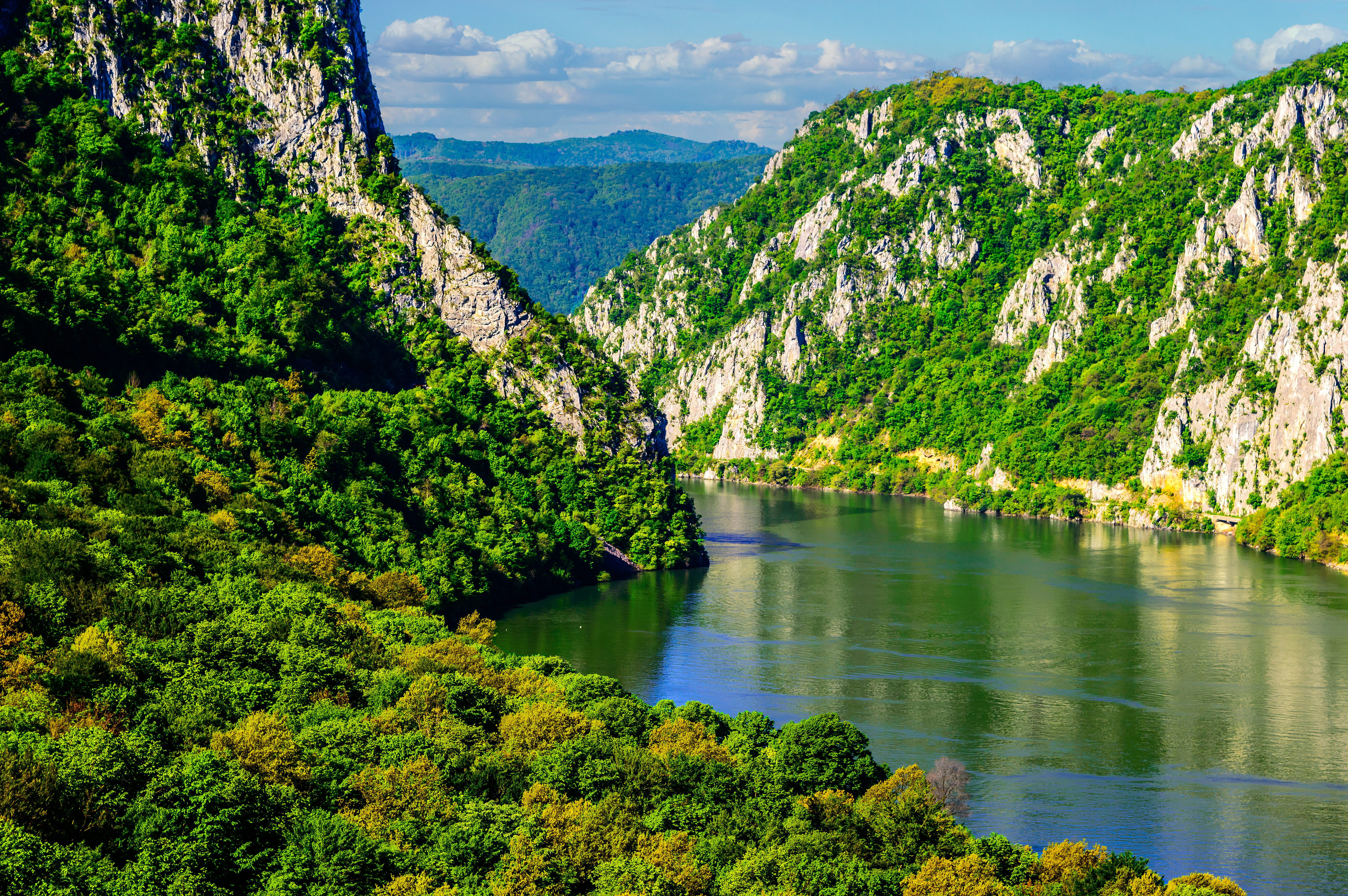 Ово је фотографија заштићеног природног добра у Србији под шифром: НП04 This is a a photo of a natural area in Serbia with ID: НП04 At a rest stop.